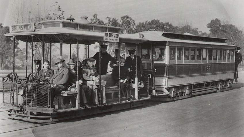 The Brunswick Line, apart of Melbourne's cable tramway system, a route which served Melbourne-Brunswick from 1887-1936.